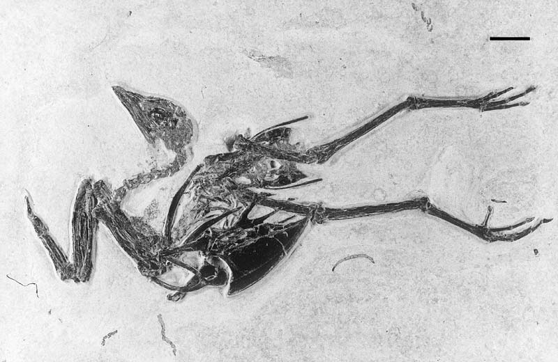 Gallinuloides wyomingensis, holotype and hitherto only known specimen (MCZ 342221). Scale bar 20 mm.